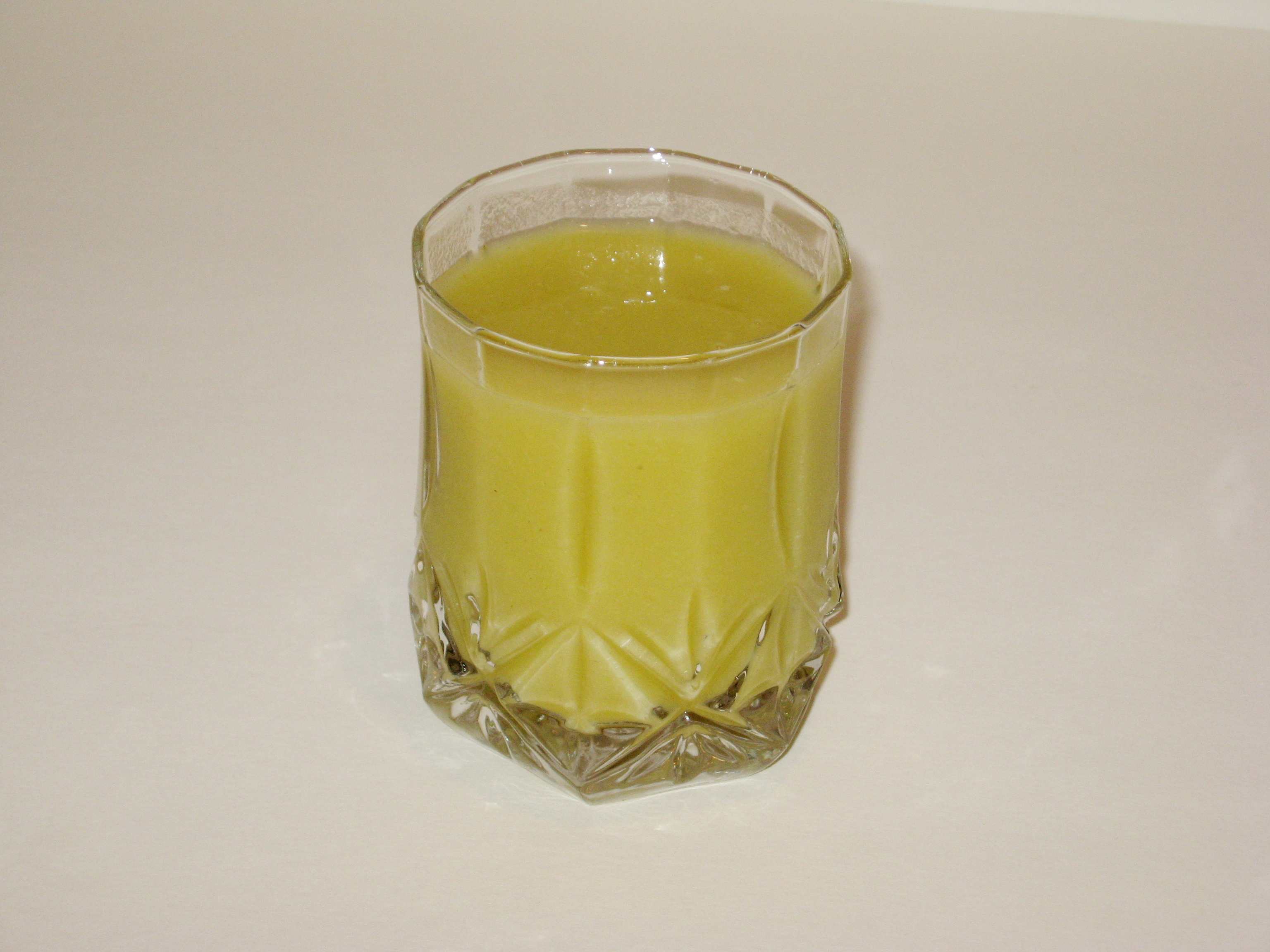 This is a simple picture of a juice drink.